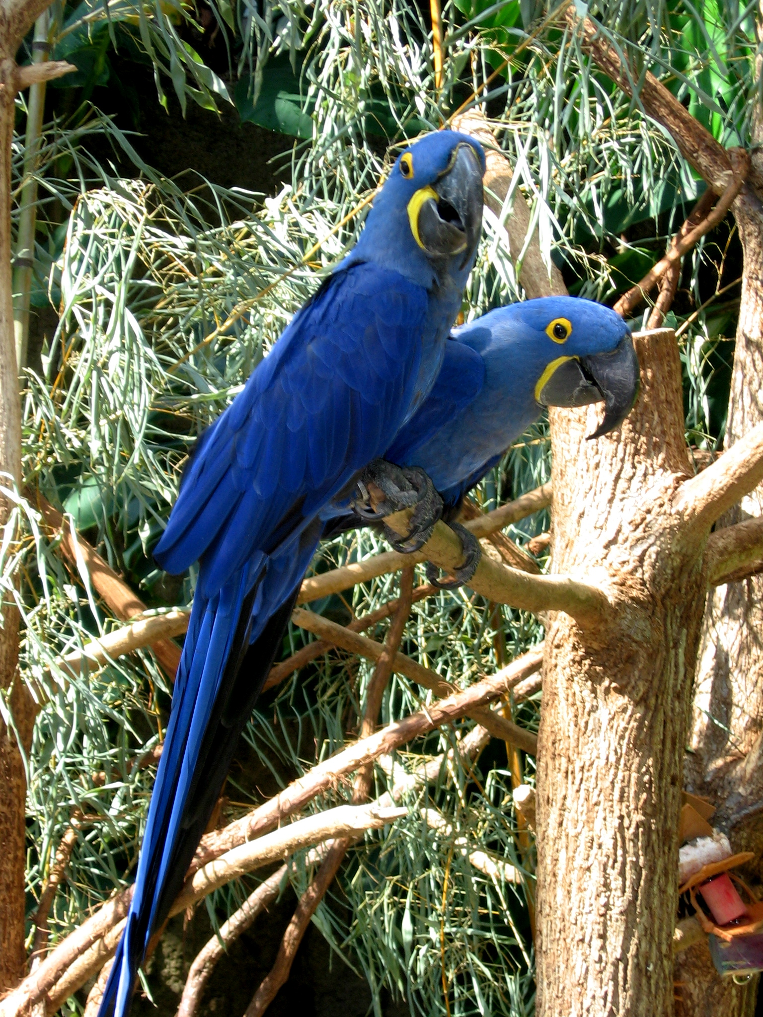 Hyacinth Macaws (Anodorhynchus hyacinthinus), at the Tennessee Aquarium.